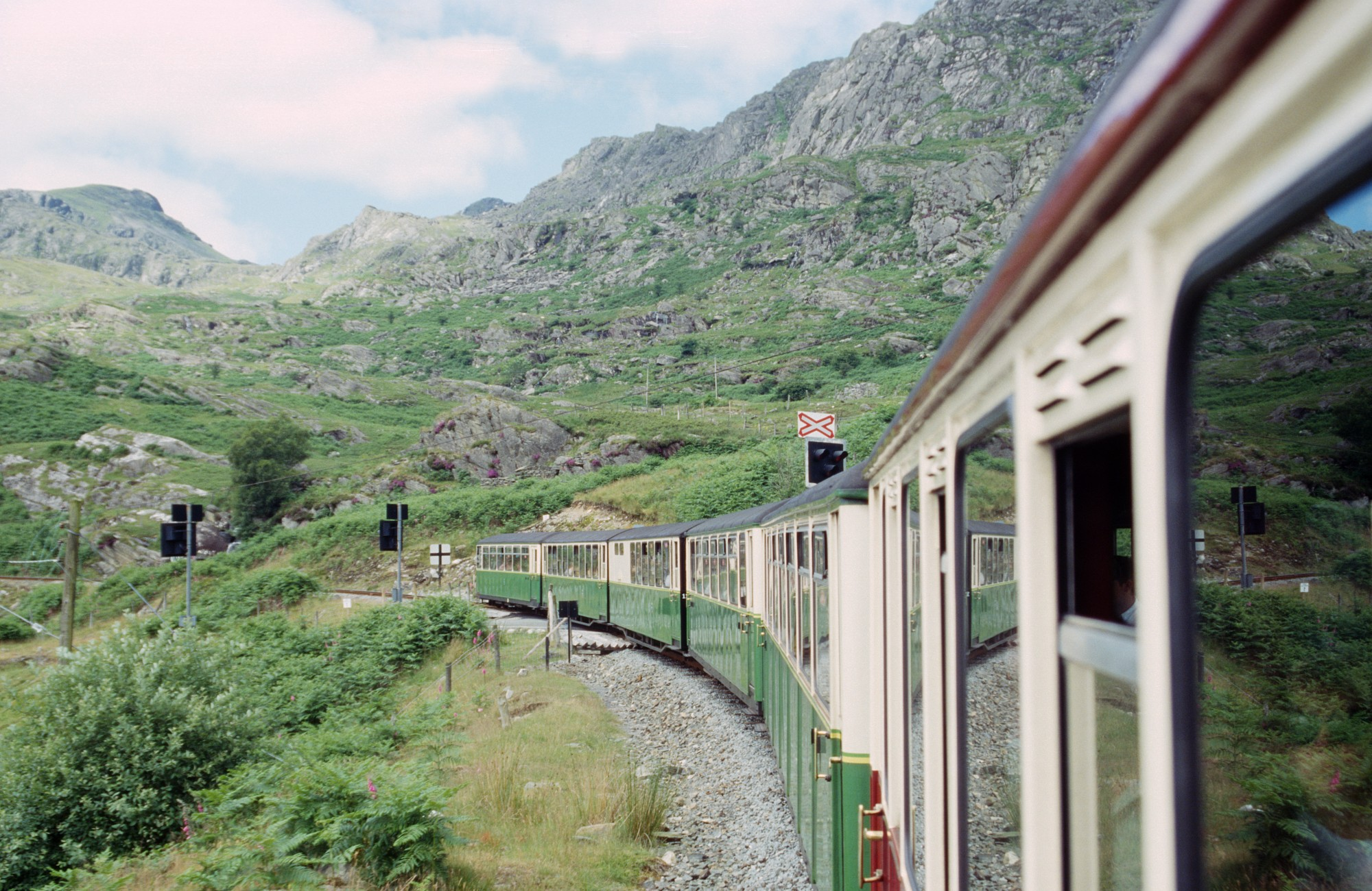 en: Looking out of the window on the deviation route above Llyn Ystradau reservoir de: Ein Blick aus dem Fenster auf der Neubaustrecke oberhalb des Stausees Llyn Ystradau